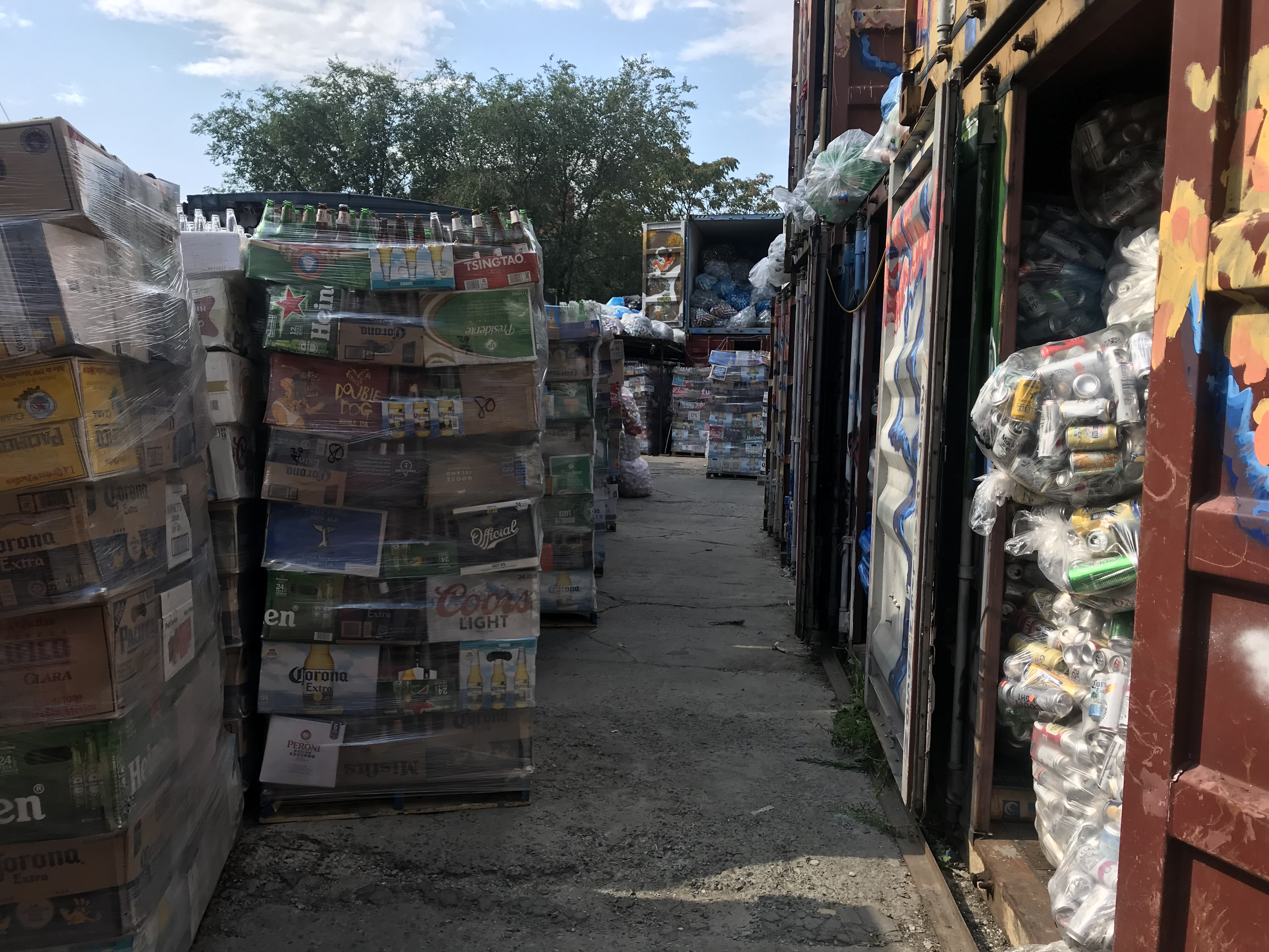 At Sure We Can, Bushwick, Brooklyn, a canner-friendly redemption center and sustainability hub and think-tank. Here bottles & Cans wait to be picked up for recycling.